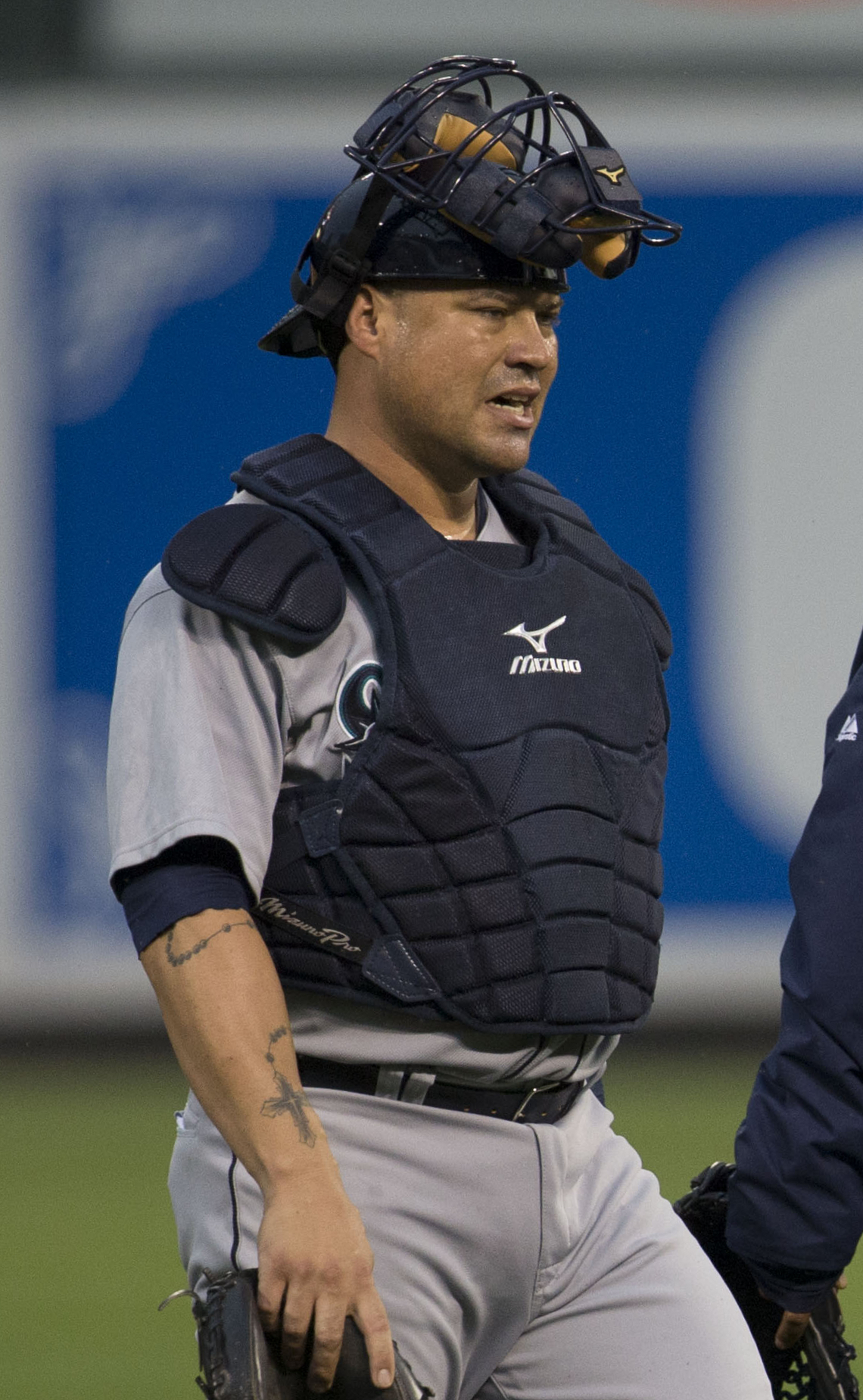 Humberto Quintero